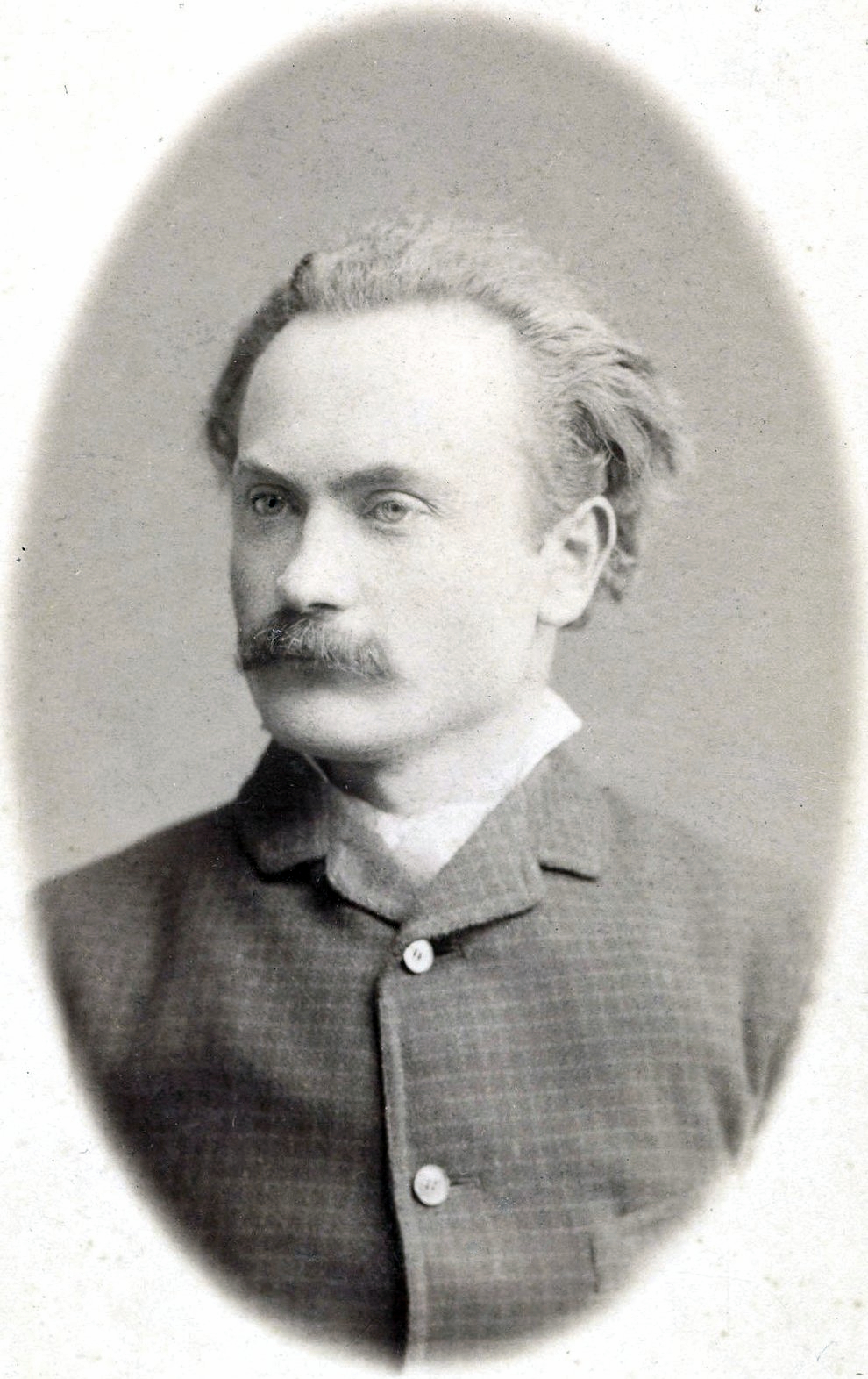 Ivan Franko portrait